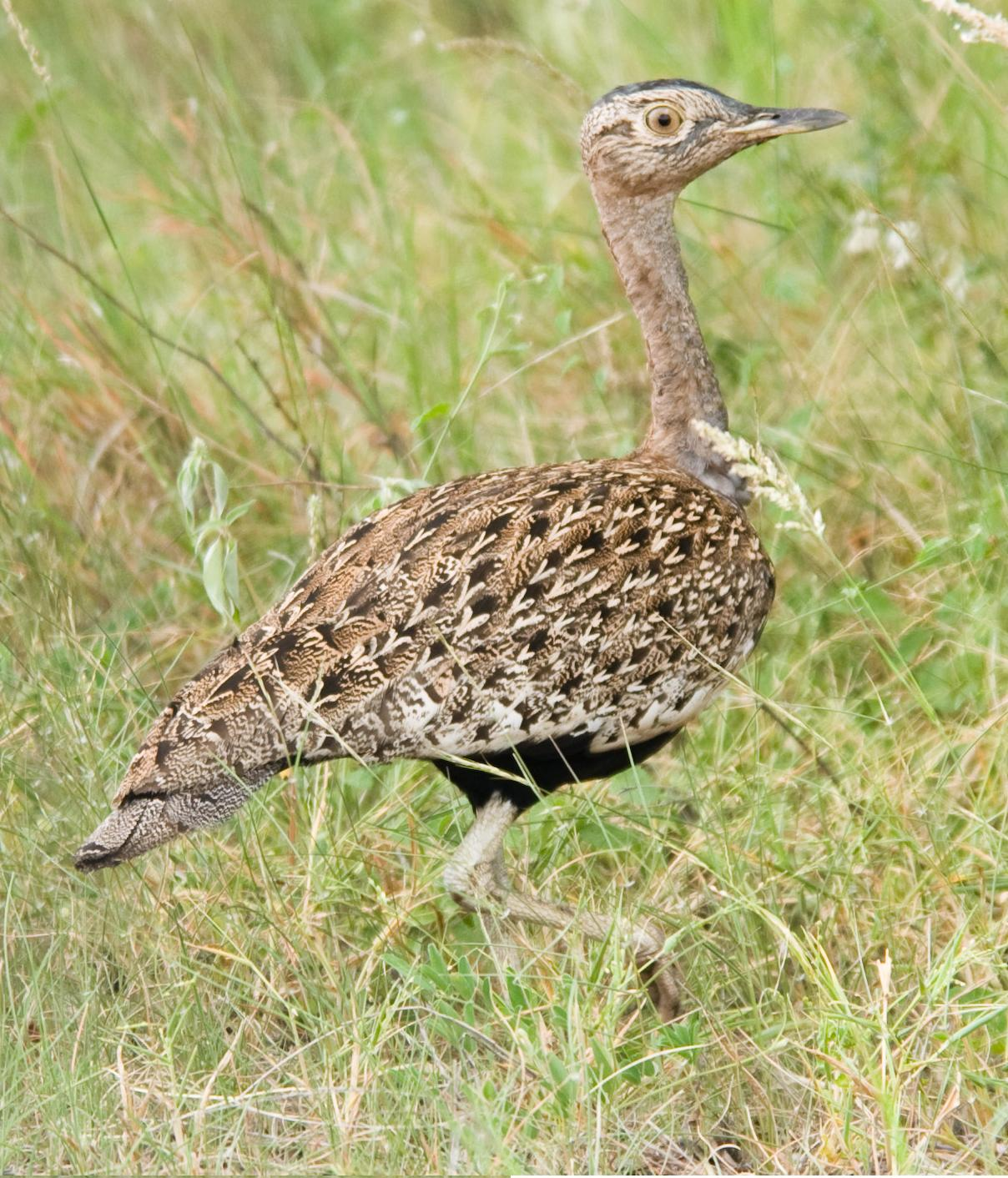 Red-crested Bustard or Red-crested Korhaan (Eupodotis ruficrista) Dysmorodrepanis 02:49, 29 May 2008 (UTC)